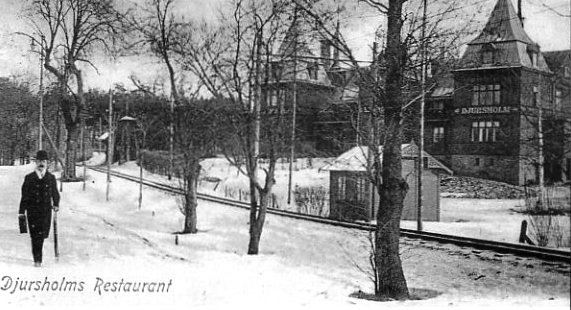 The Restaurant in Djursholm, Sweden. Postcard from year 1900